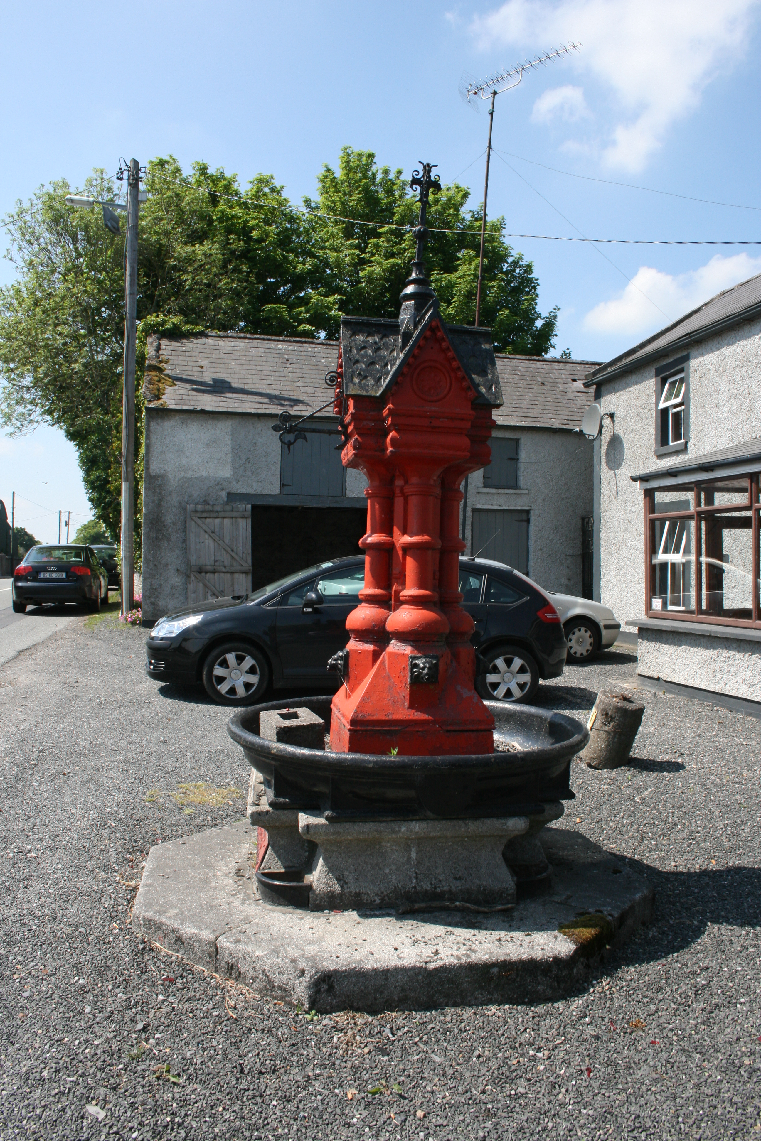 Eadestown